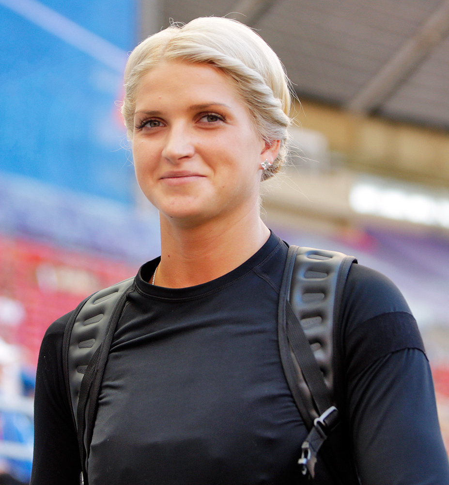 Lina Muze at 2013 World Championships in Athletics